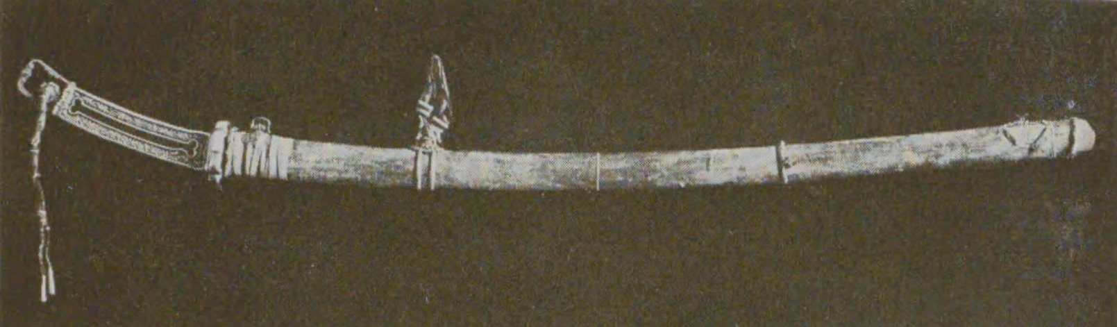 A kenuki-gata tachi made in Heian period at Ise Shrine. An Important Cultural Property of Japan.